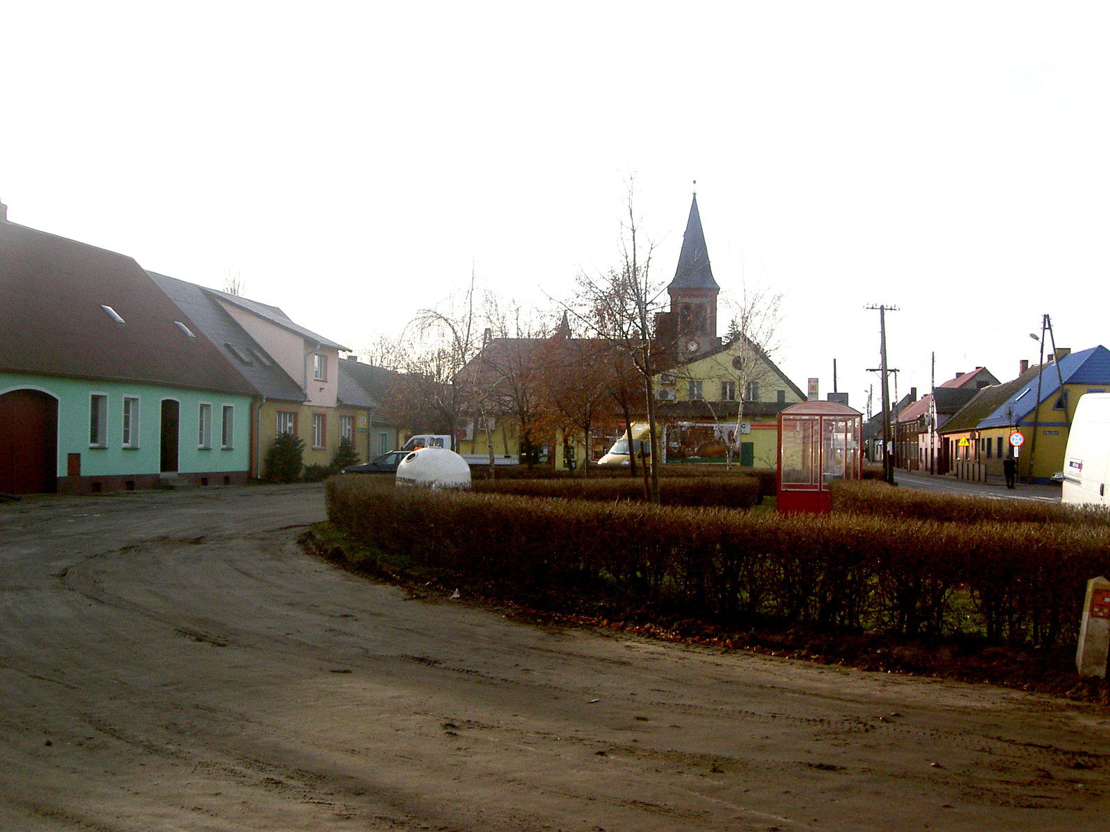 Lampartopol, Kopanica, Poland